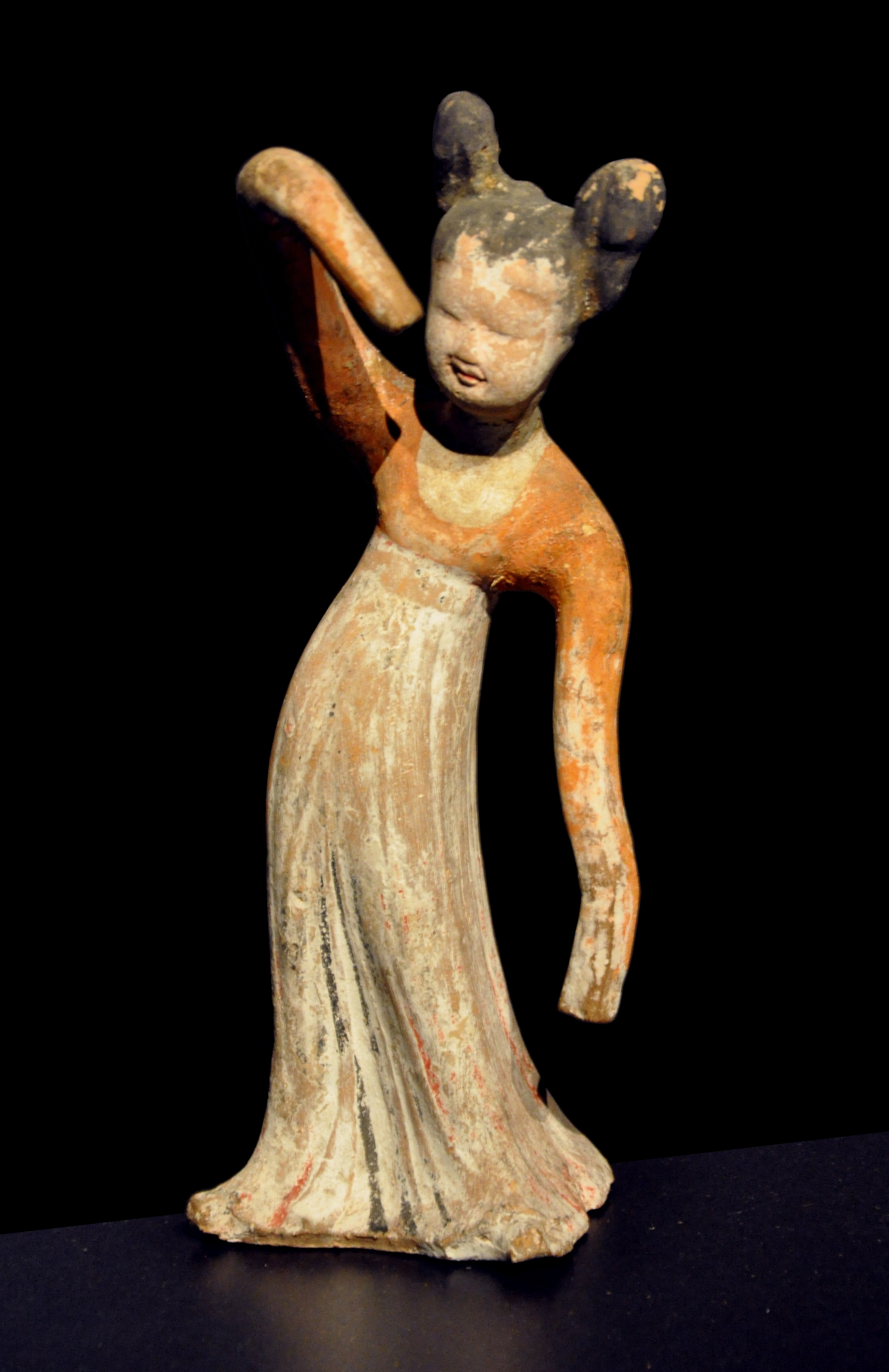 Clay figure of a female dancer (wuyong); China, Tang Dynasty, 8th century AD; painted clay; Museum: Liebieghaus, Frankfurt am Main, Inv. No. 885